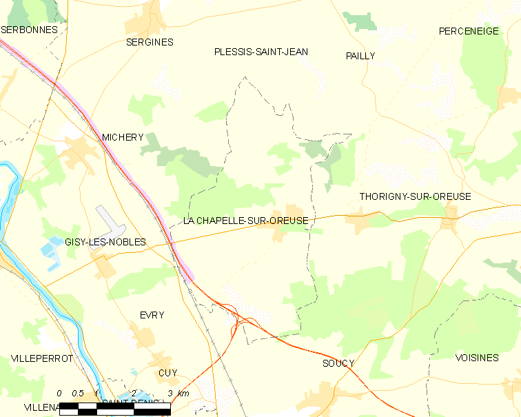 Map of French municipality La Chapelle-sur-Oreuse